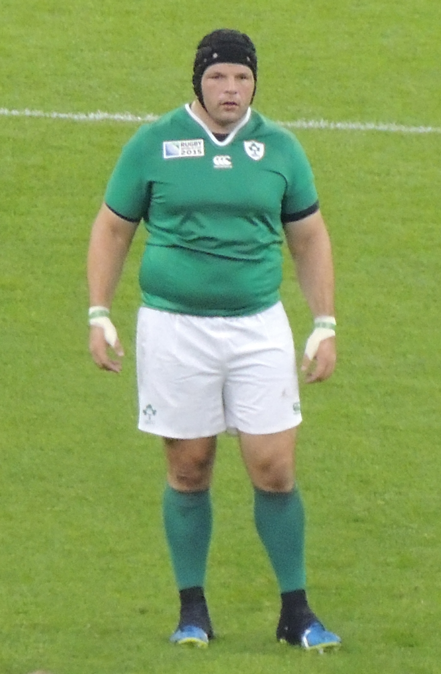 Ireland rugby union player Mike Ross playing in 2015 Rugby World Cup game Ireland vs Canada at Millennium Stadium in Cardiff.